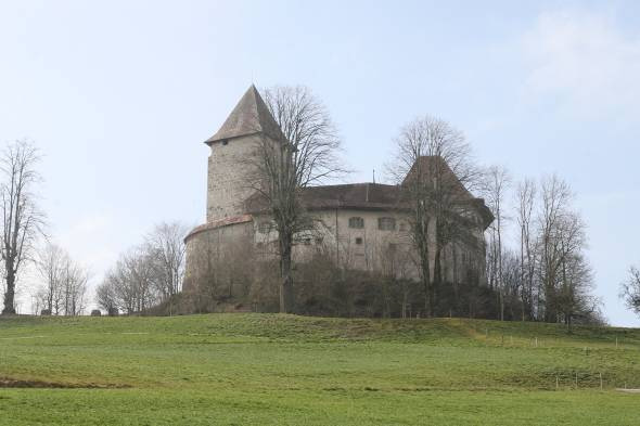 Trachselwald Castle seen from the north.